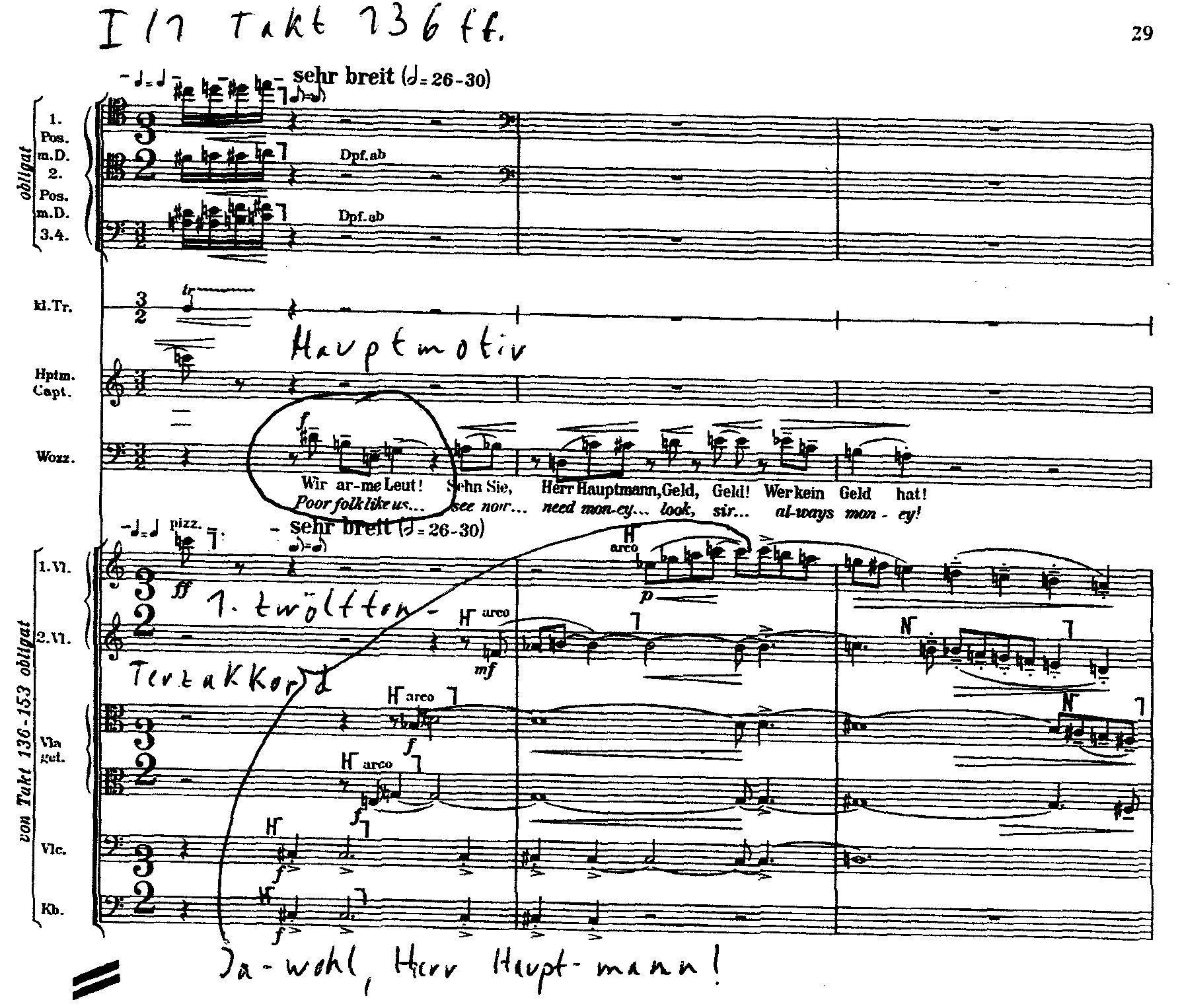 Annotation of three musical motifs to the score of Alban Berg's opera "Wozzeck" (created 1925), act 1, scene 1, meter 136 ff. Score reproduced from: Georg Büchners Wozzeck, Partitur, Universal Edition, Wien 1955, p. 136.